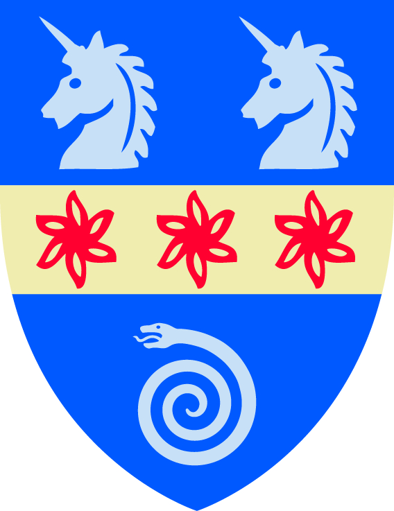 St Hilda's College Coat of Arms